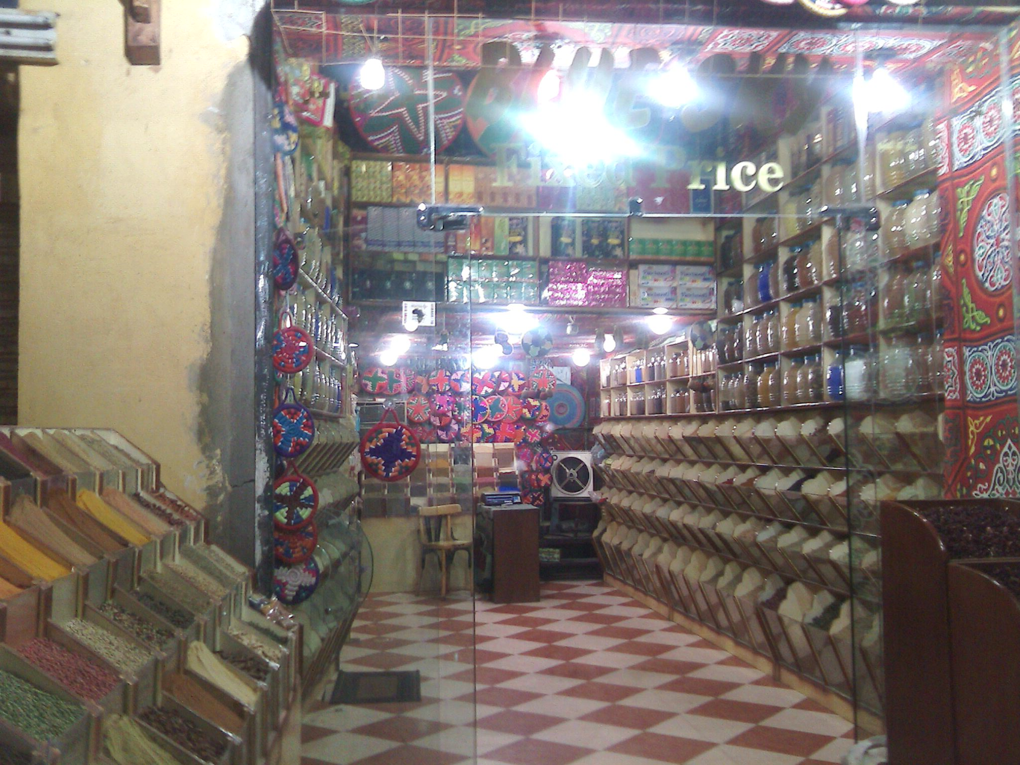 Herb store in Asswan This is an image of food from Egypt